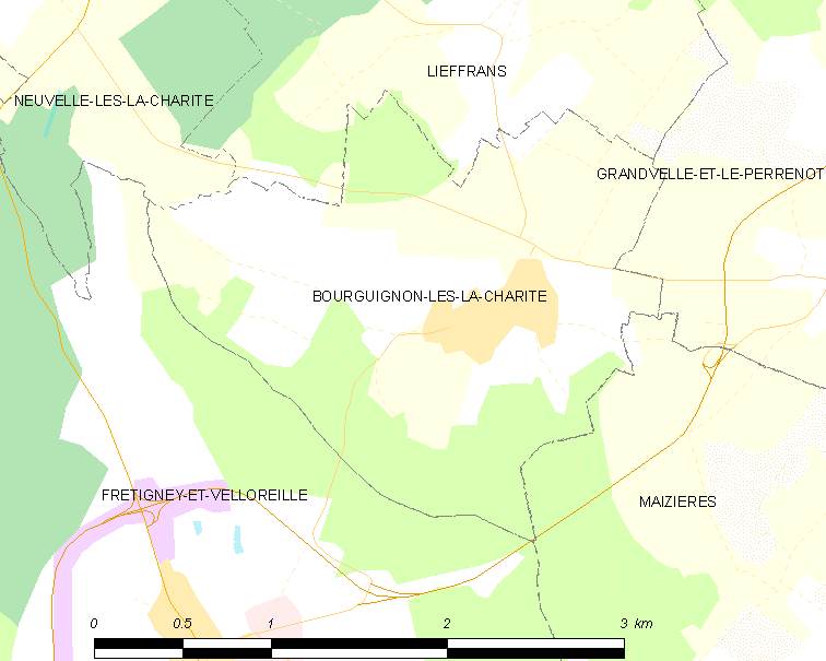 Map of French municipality